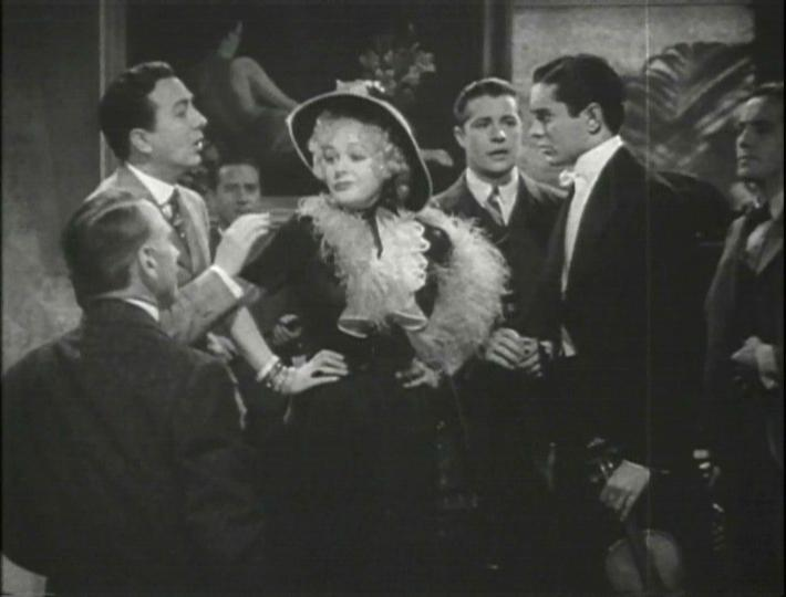 Screenshot of Jack Haley, Alice Faye, Don Ameche and Tyrone Power from the trailer for the film Alexander's Ragtime Band